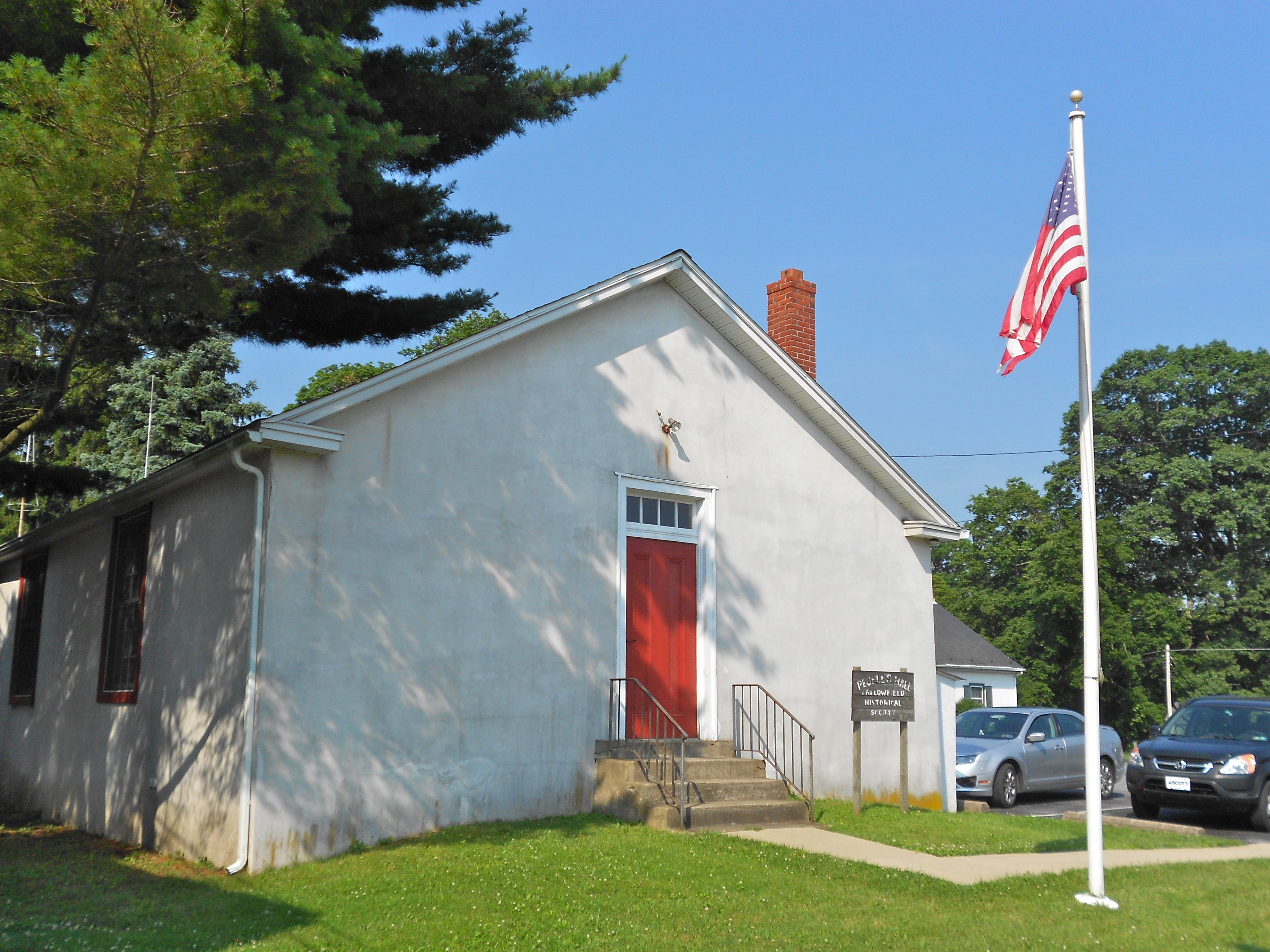 People's Hall in Ercildoun, Pennsylvania, site of abolitionist activity in Chester County, Pennsylvania.